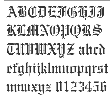 old english typeface example